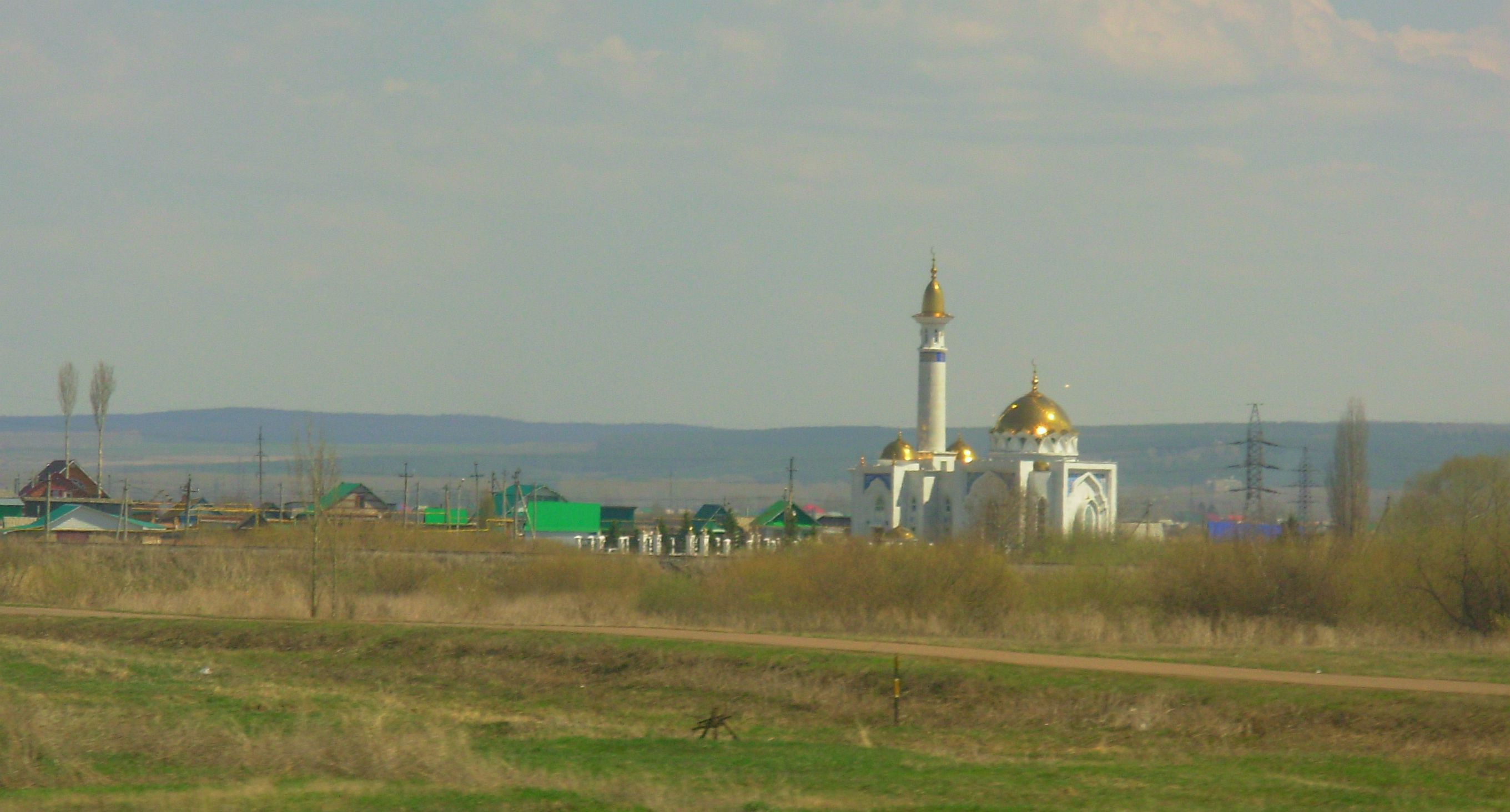 Дер. Кантюковка